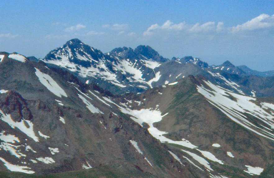 Mt. Kapudhukh (Zangezur ridge, Armenia/Azerbaijan border) from southeast (below Mt. Sisakapar)